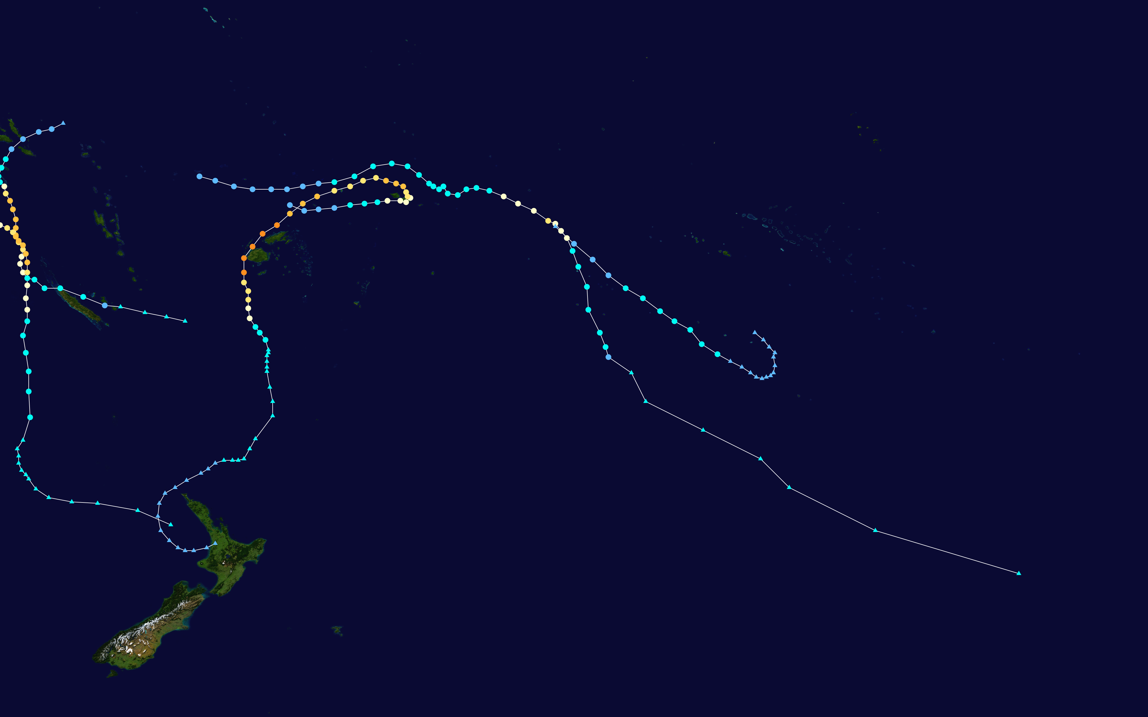 This map shows the tracks of all tropical cyclones in the 2012–13 South Pacific cyclone season. The points show the location of each storm at 6-hour intervals. The colour represents the storm's maximum sustained wind speeds as classified in the Saffir-Simpson Hurricane Scale (see below), and the shape of the data points represent the type of the storm. Saffir–Simpson scale Tropical depression≤38 mph≤62 km/h Category 3111–129 mph178–208 km/h Tropical storm39–73 mph63–118 km/h Category 4130–156 mph209–251 km/h Category 174–95 mph119–153 km/h Category 5≥157 mph≥252 km/h Category 296–110 mph154–177 km/h Unknown Storm type Tropical cyclone Subtropical cyclone Extratropical cyclone / Remnant low / Tropical disturbance / Monsoon depression